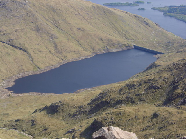 Cruachan Reservoir. Cruachan Reservoir was created in 1965 as part of a huge hydro-electric scheme. It is one of the finest engineering feats in the country